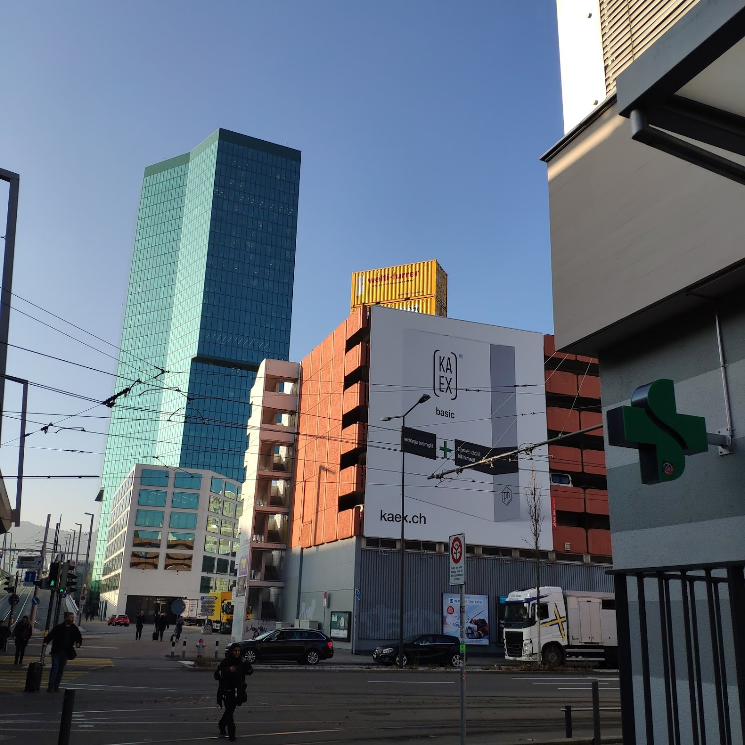 the internet meme of "Epstein didn't kill himself" is way more than an insider for "geeks" and was even commercialized to a mainstream level, incl. a large-scale billboard in the city center of Zurich in Switzerland.